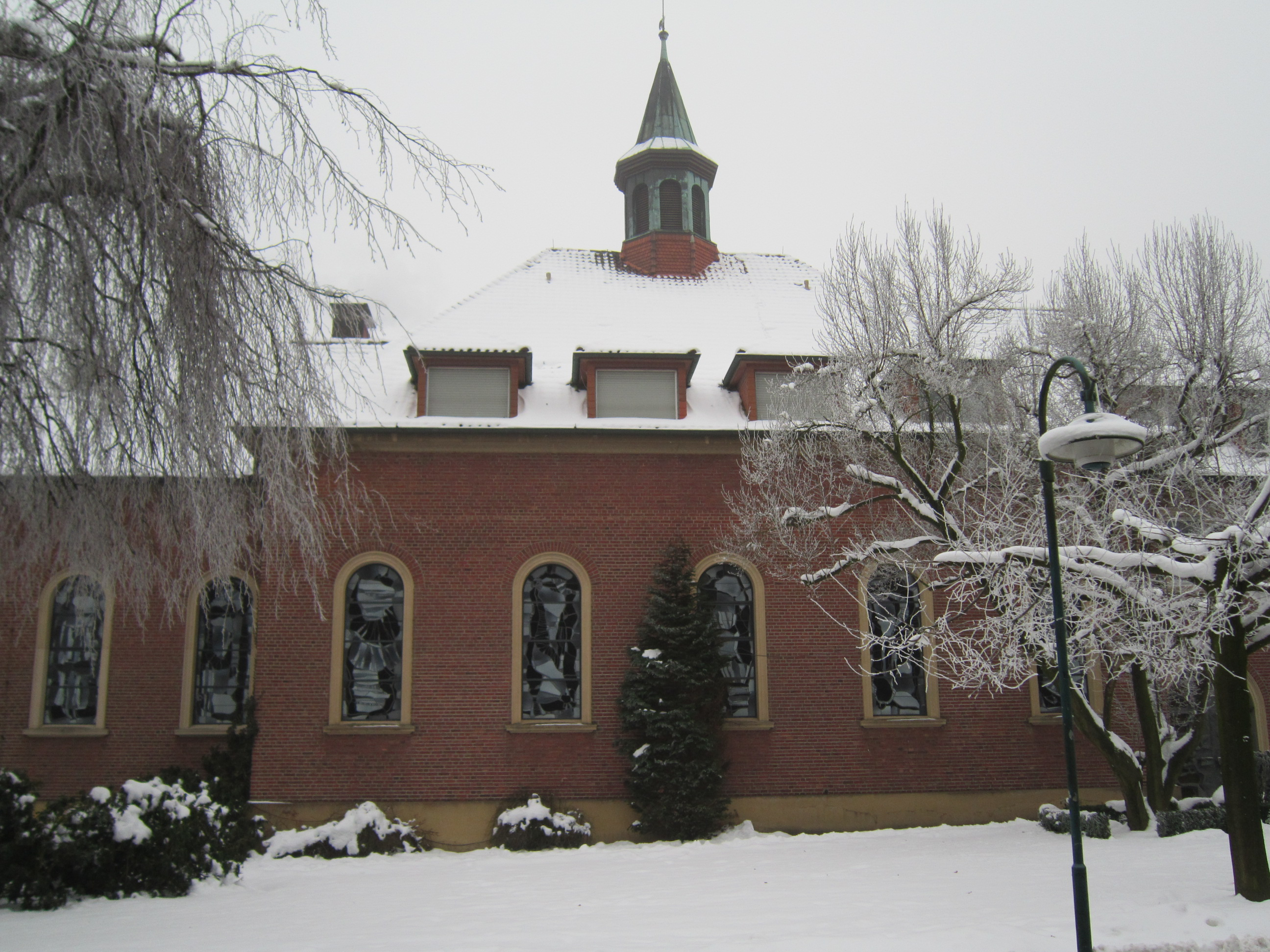 "Sacred Heart Chapel" in Kroge, Lohne (Oldenburg)